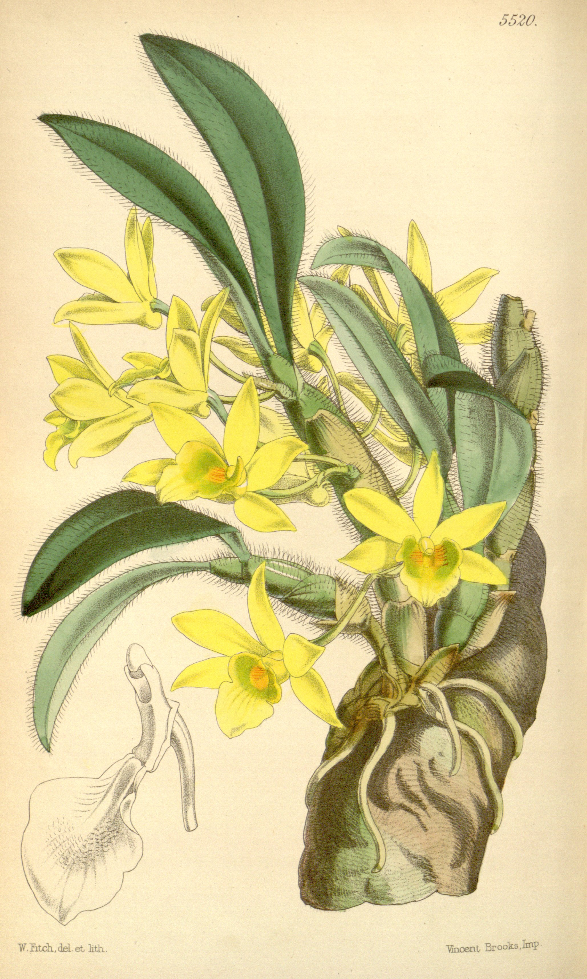 Illustration of Dendrobium senile